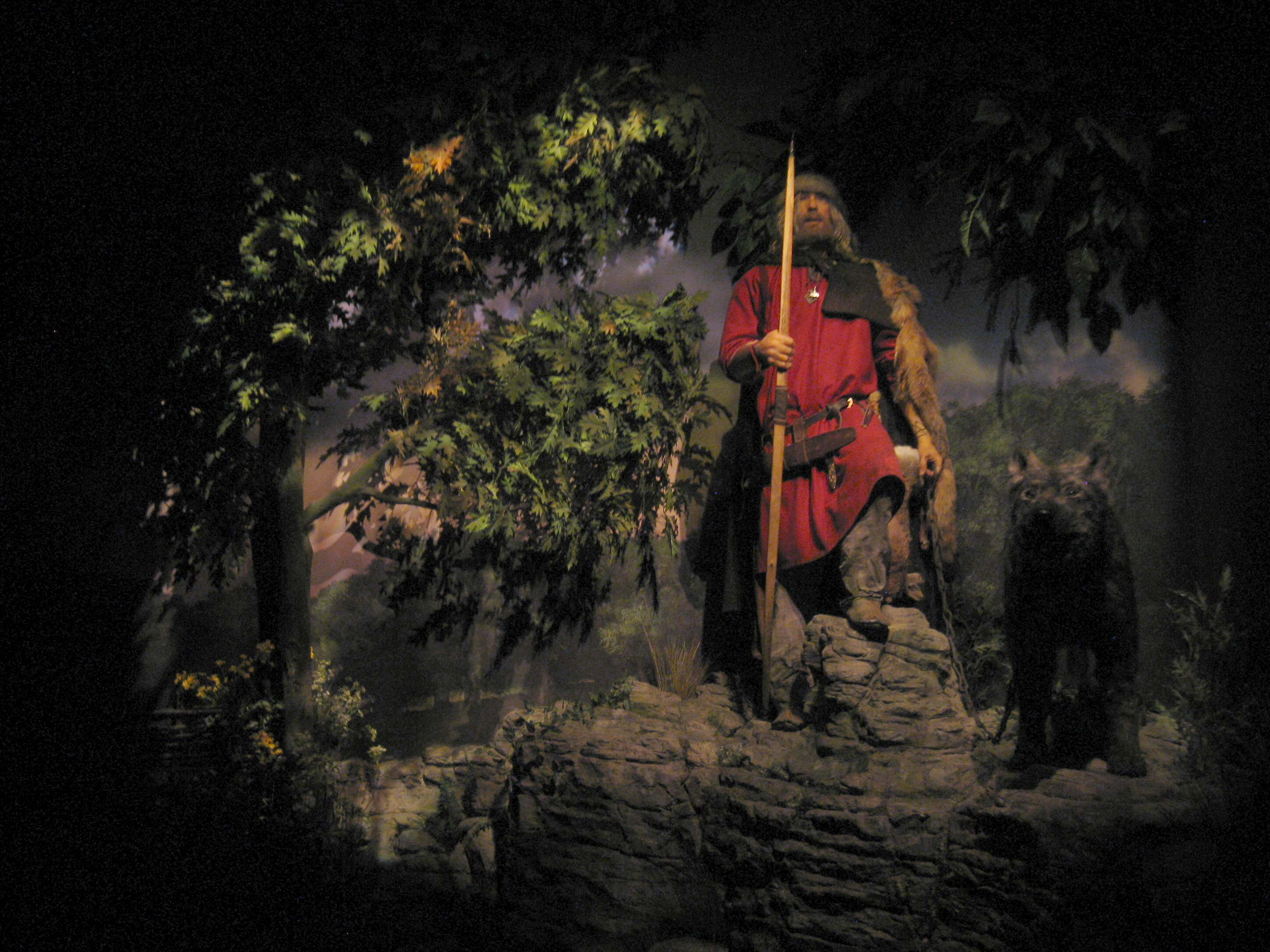 "Wilkom in Jorvik" says the first animatronic figure at the Jorvik Viking Centre, along with his dog.